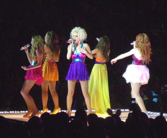 Girls Aloud at the O2 in London